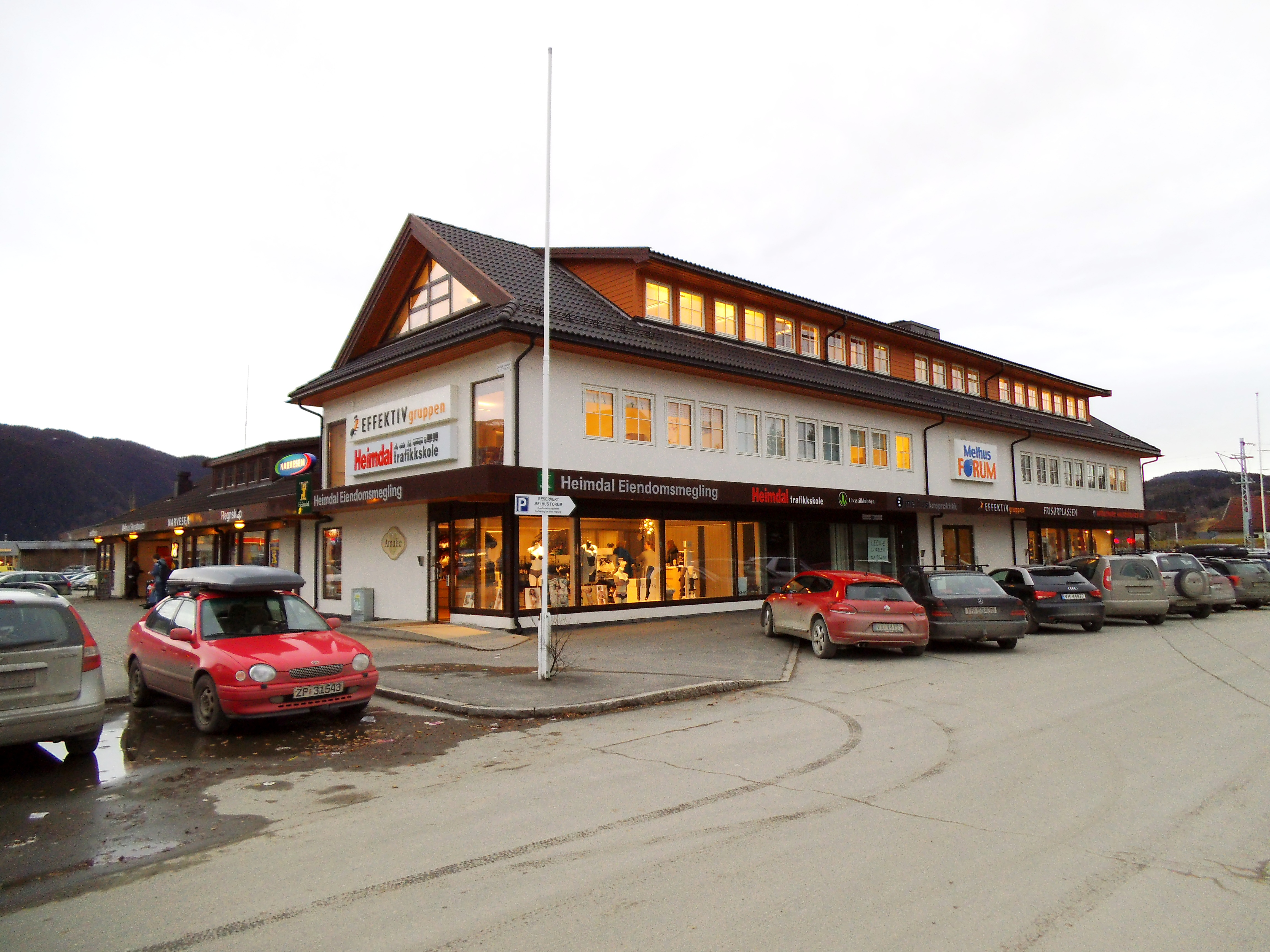 Melhus Forum, an office building located in Melhus, Norway.